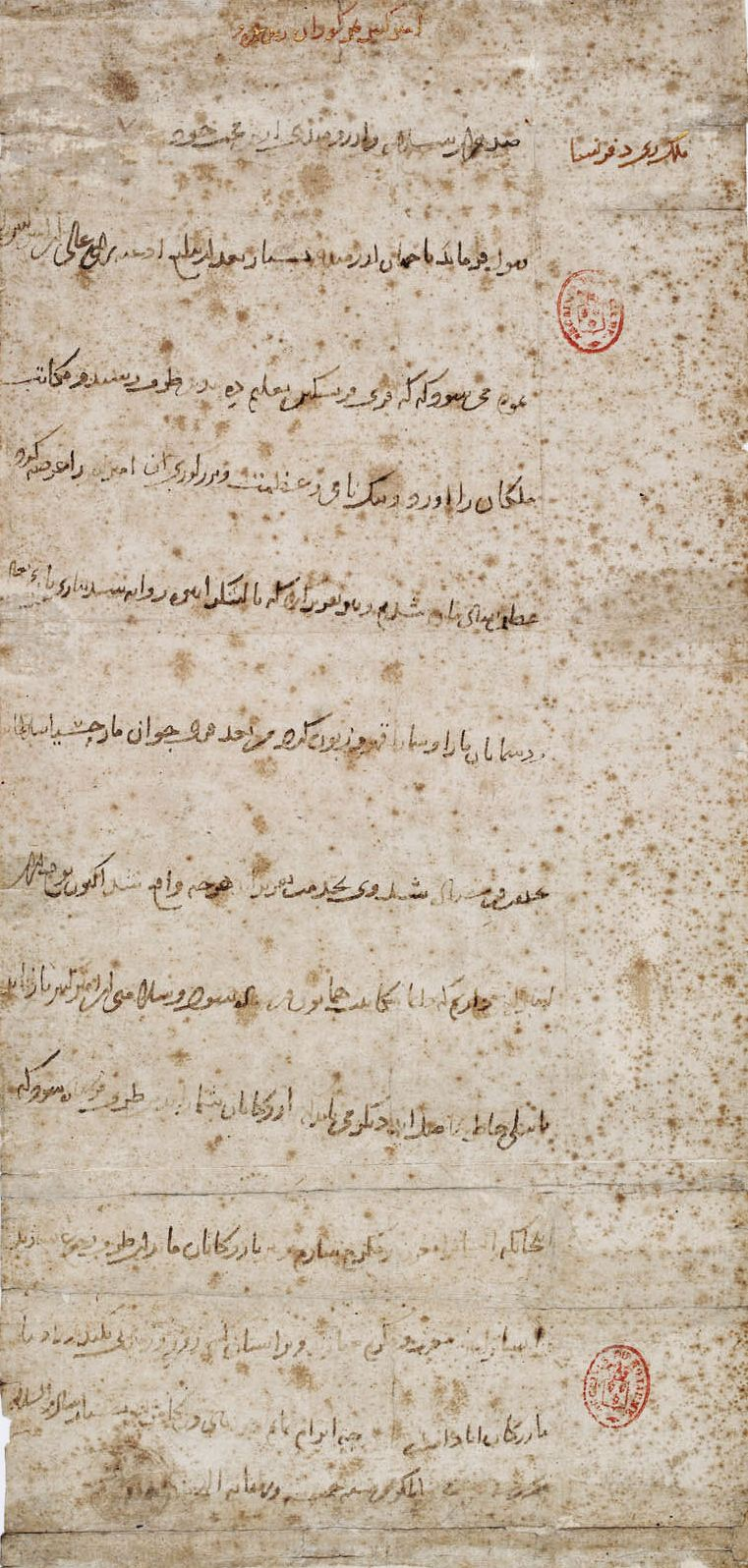 Letter of Tamerlane to Charles VI. Original version, written in Persian.